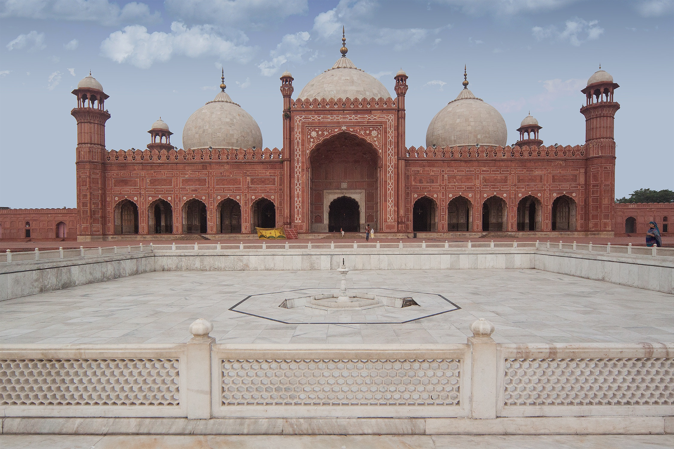 The magnificent royal mosque is a Masterpiece of the Mughal architecture in Lahore, Pakistan, created in 17th century. The Masterpiece stands perfectly fine with walls and dooms covered with detailed geometrical artwork, paintings and tile work, not to be found anywhere else in the whole world. published by zaki imtiaz